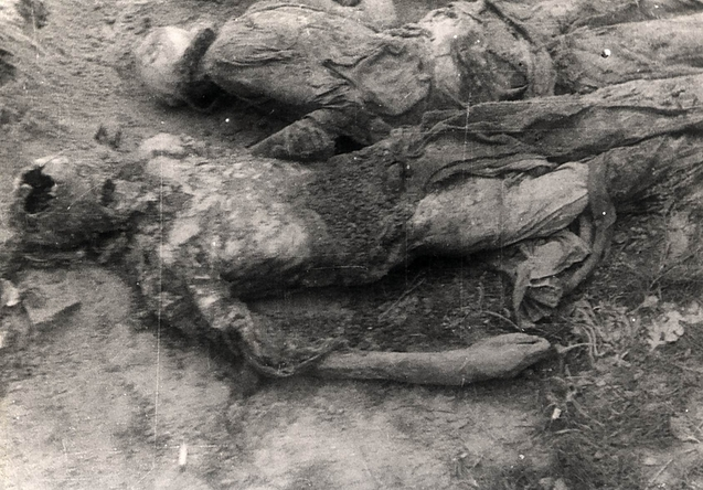 At the site of Nazi concentration camp "Janowska" in Lviv, western Ukraine. Human remains. Photo from 1944 - Soviet extraordinary commission researches the crimes of German Nazis at Janowska concentartion camp (Lviv, west Ukraine) and mass graves adjoining the camp. Janowska was a Nazi German labor, transit and concentration camp established September 1941 in occupied Poland on the outskirts of Lwów (Poland, today Lviv in Ukraine). The camp was labeled Janowska after the nearby street's name ulica Janowska, nowadays Shevchenka street (Ukrainian: Вулиця Шевченка). Notable inmates of Janowska camp: Adolf Beck, Polish physiologist Emanuel Szlechter, Polish screenwriter and lyricist Simon Wiesenthal, Nazi hunter.